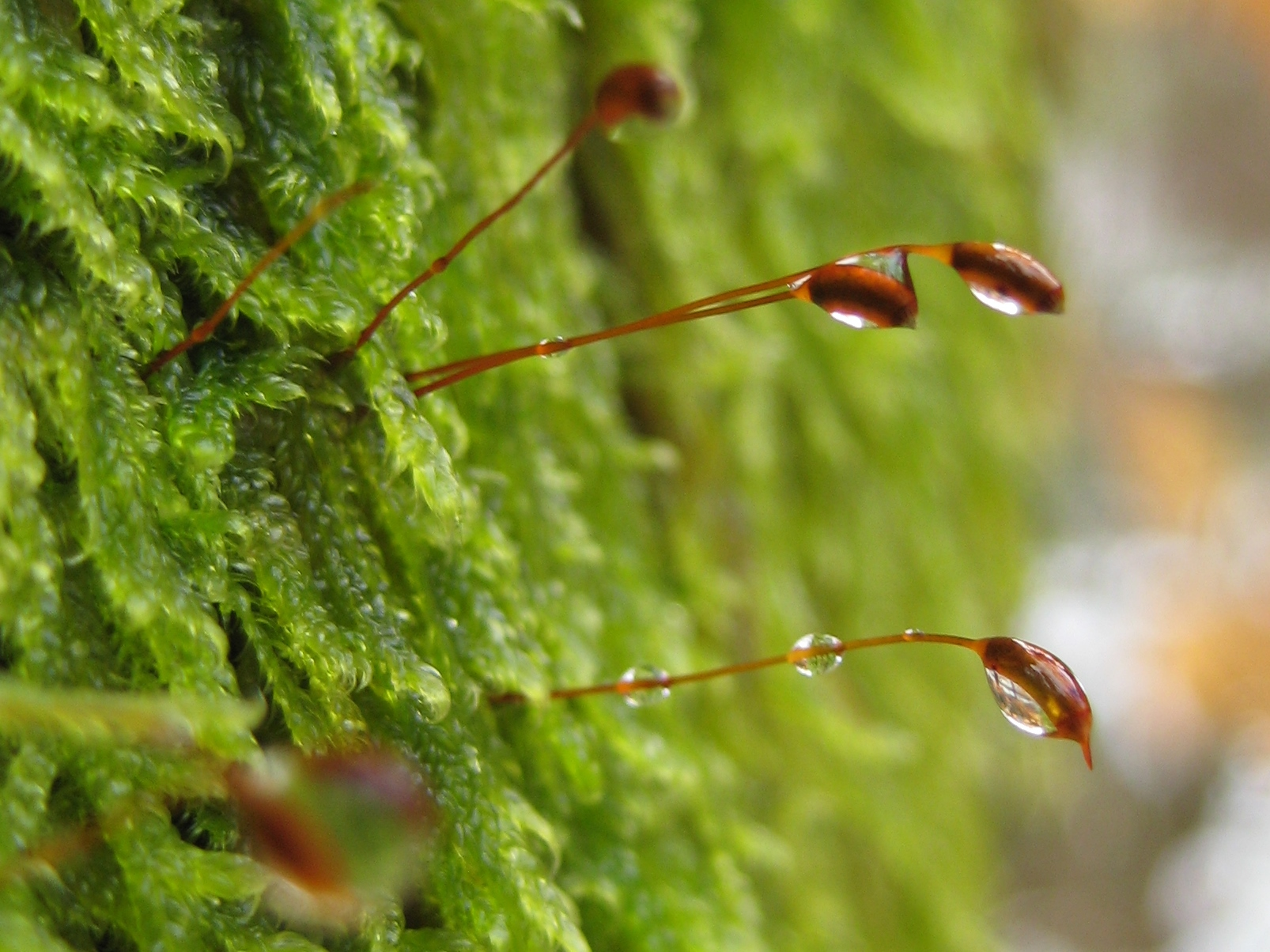 Cypress-leaved plait-moss at the Ilz